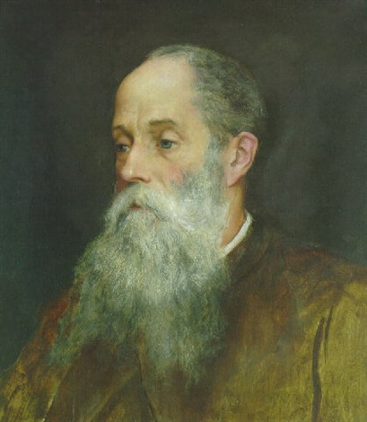 Portrait of John Roddam Spencer Stanhope, Pre-Raphaelite painter, by his niece, Evelyn de Morgan